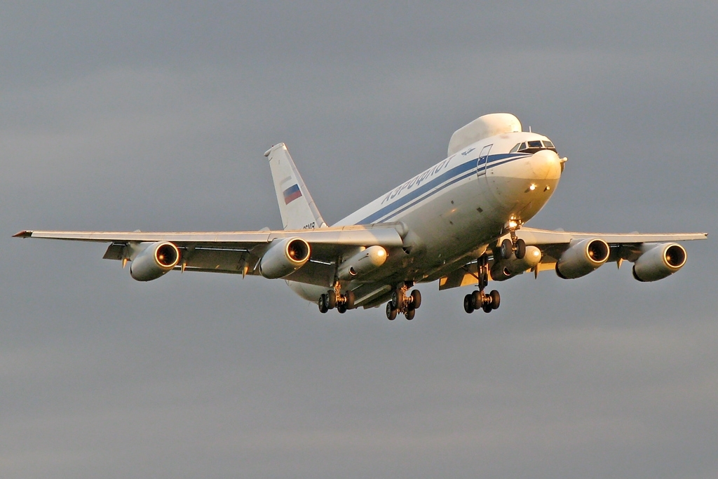 Ilyushin Il-80 airborne command post/communications relay aircraft